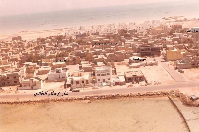 Apparently the town of Al Hidd, Bahrain.